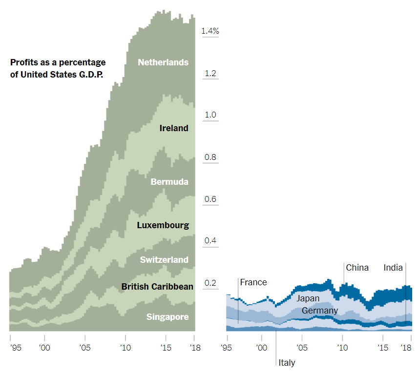 Recreation of the 2019 Council on Foreign Relations graphs on the percentage of U.S. corporate profits that are booked abroad, using the U.S. Bureau of Economic Analysis data.